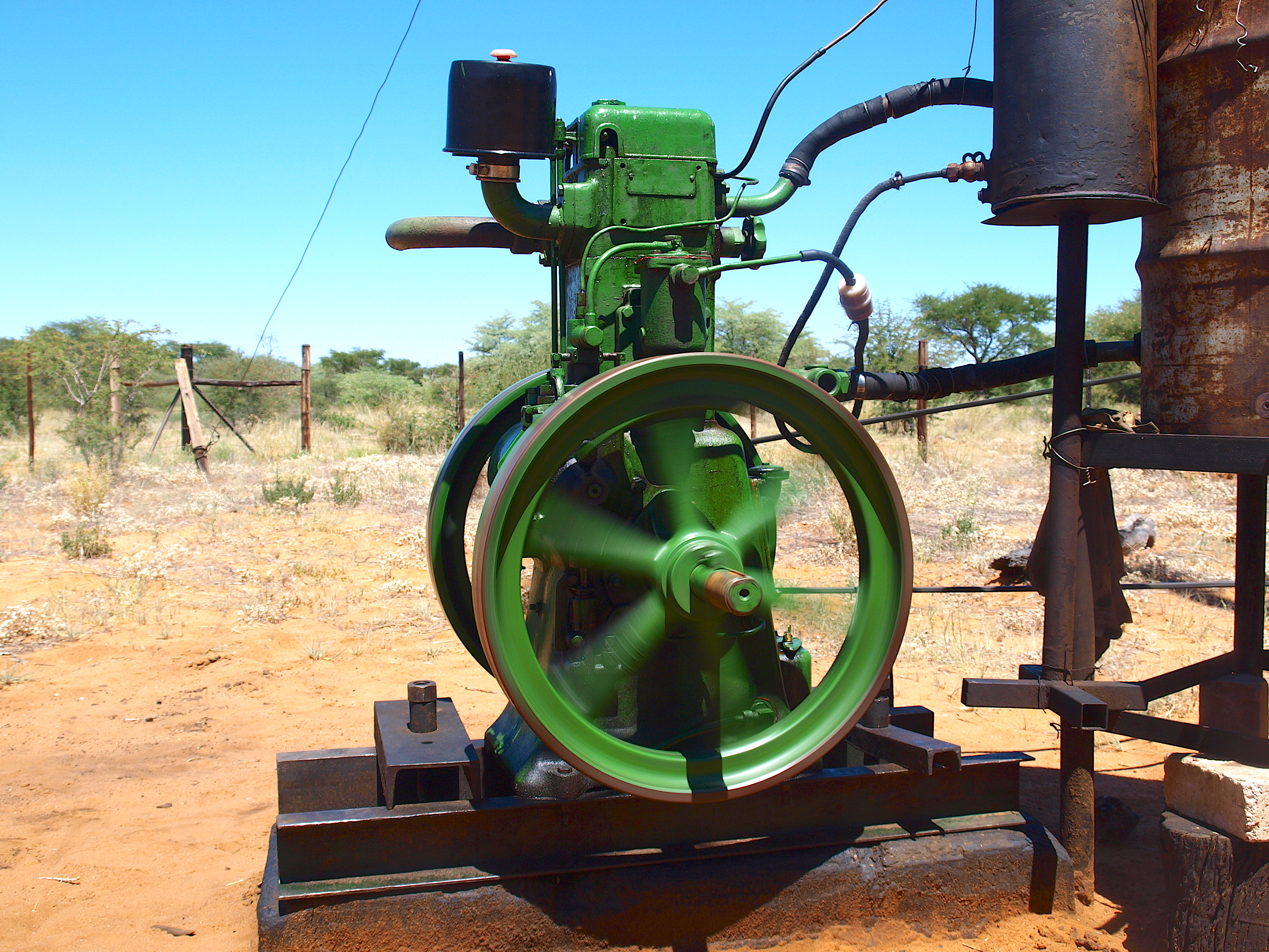 Waterpump on farm Nuiba, Namibia